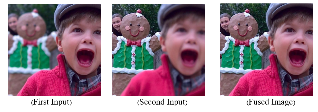 Sample of Lytro multi-focus image fusion